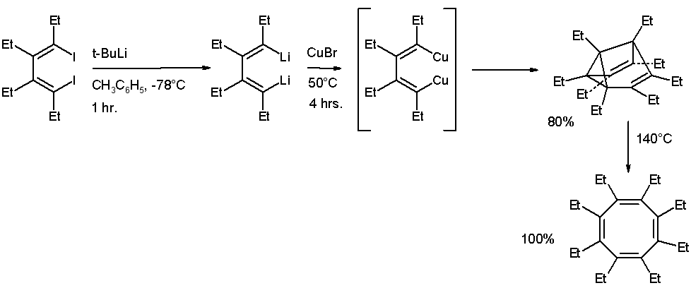 NewSemibullvaleneSynthesis